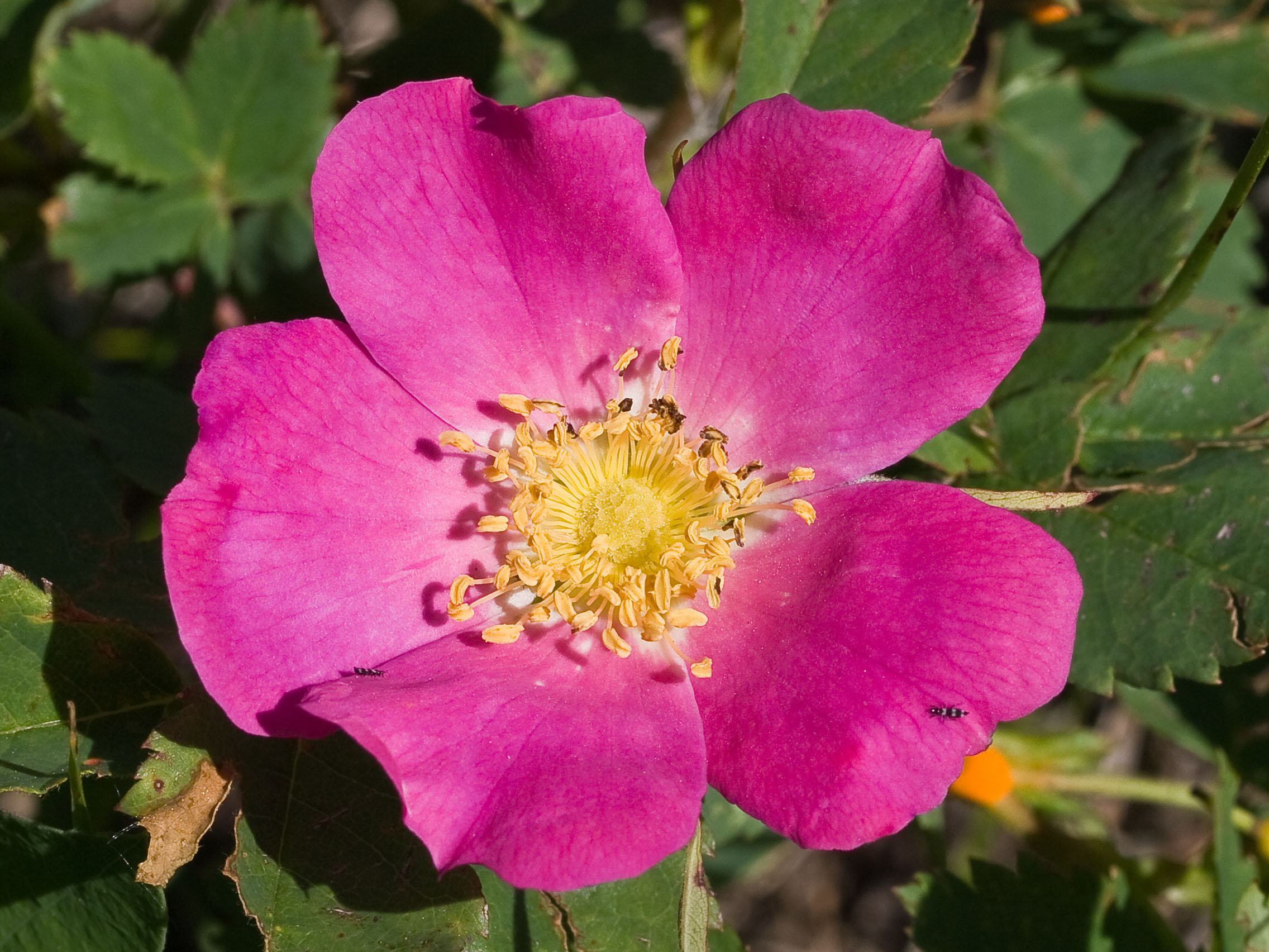 Rosa woodsii in Calgary, Alberta, Canada